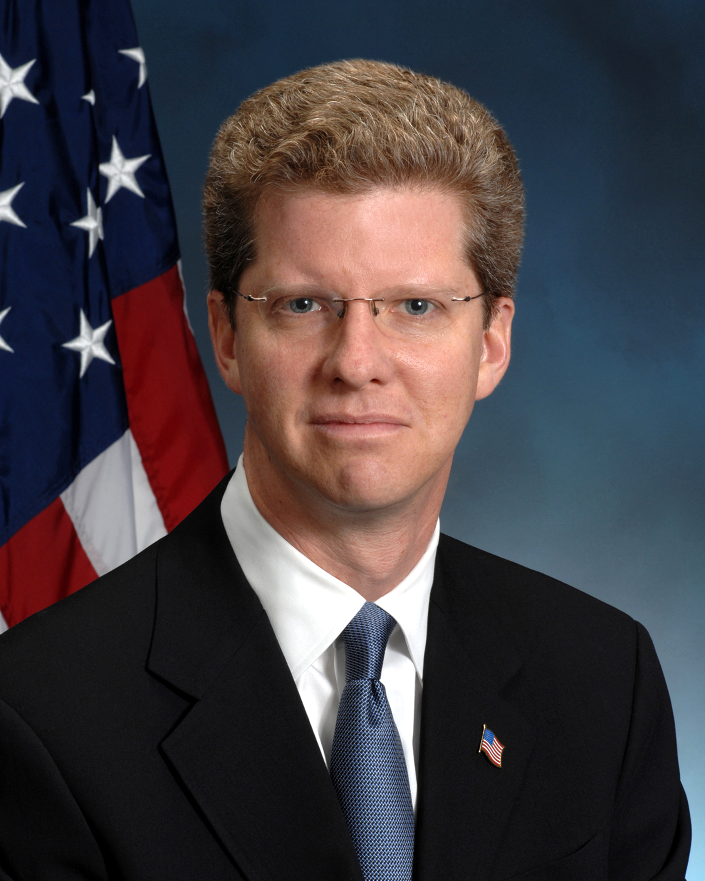 A photo portrait of Shaun L.S. Donovan, Secretary of Housing and Urban Development (2009-). This is the print version of his portrait.